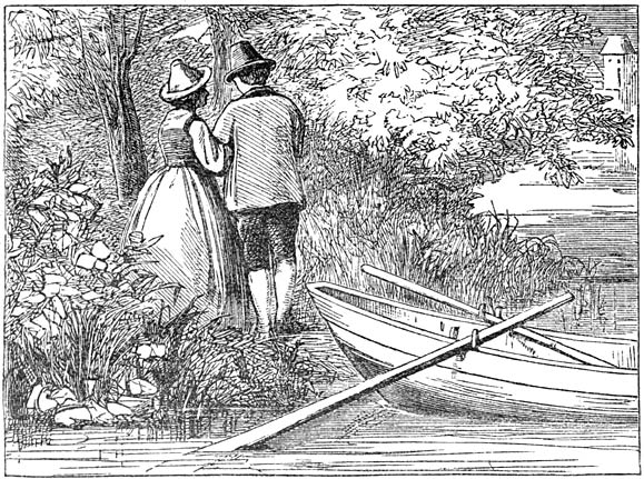 From 'Andersens Sproken en vertellingen' by Hans Christian Andersen, Titia van der Tuuk (ed.) and Simon Jacob Andriessen (trans.). Gebroeders E. & M. Cohen, Nijmegen - Arnhem. Illustrated by Alfred Walter Bayes (1832-1909) and engraved by the Dalziel Brothers (Edward Daziel, 1817-1905; George Daziel, 1815-1902).